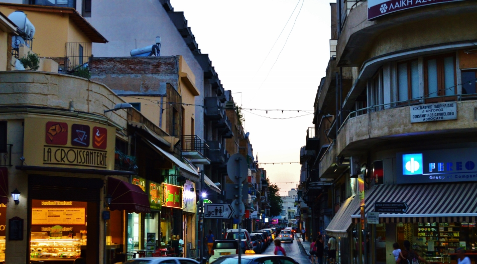 Rigenis street afternoon summer Nicosia Republic of Cyprus